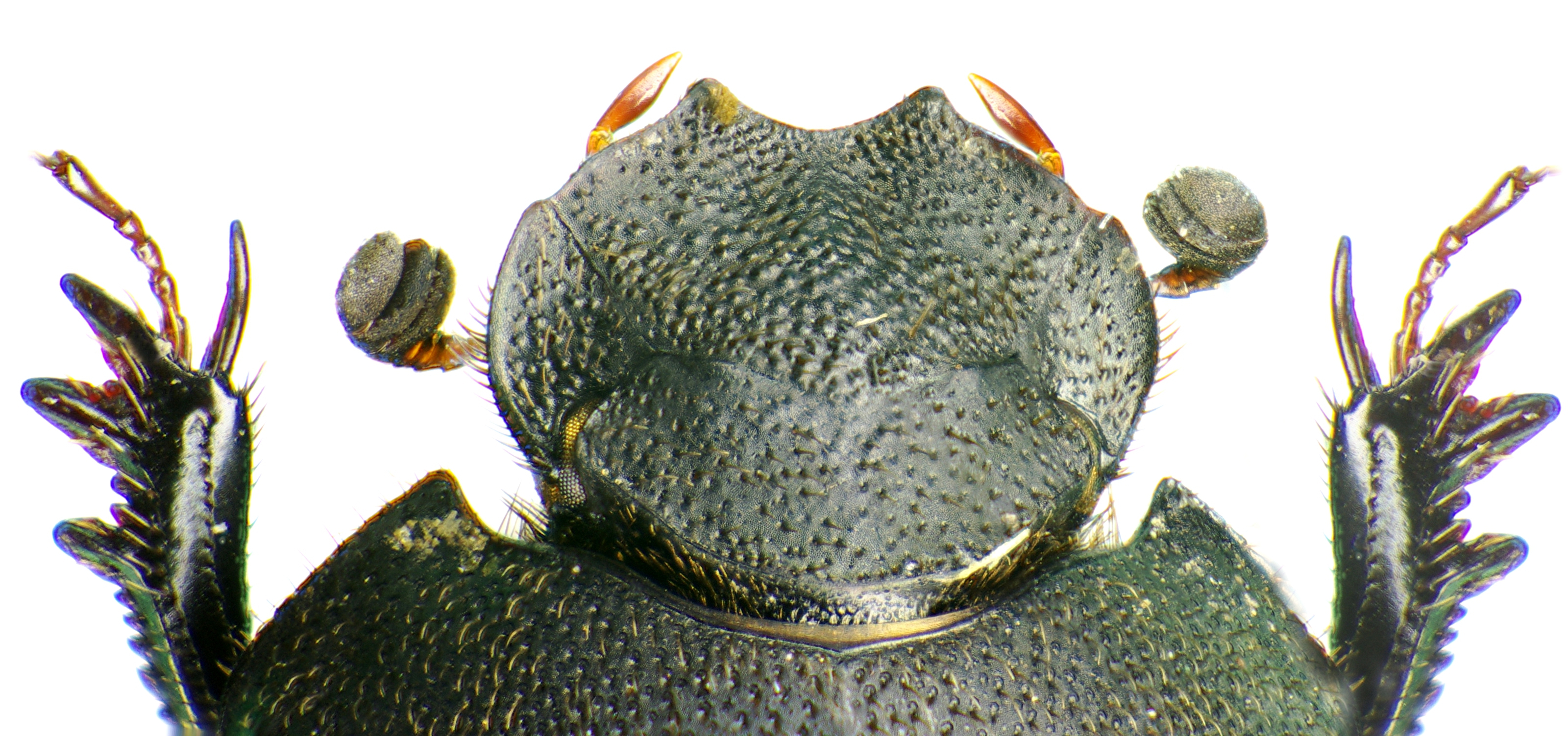 Sisyphus schaefferi, head from upside